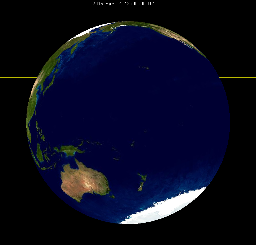 April 2015_lunar_eclipse view of earth The orientation of the earth as viewed from the center of the moon during greatest eclipse. thumb